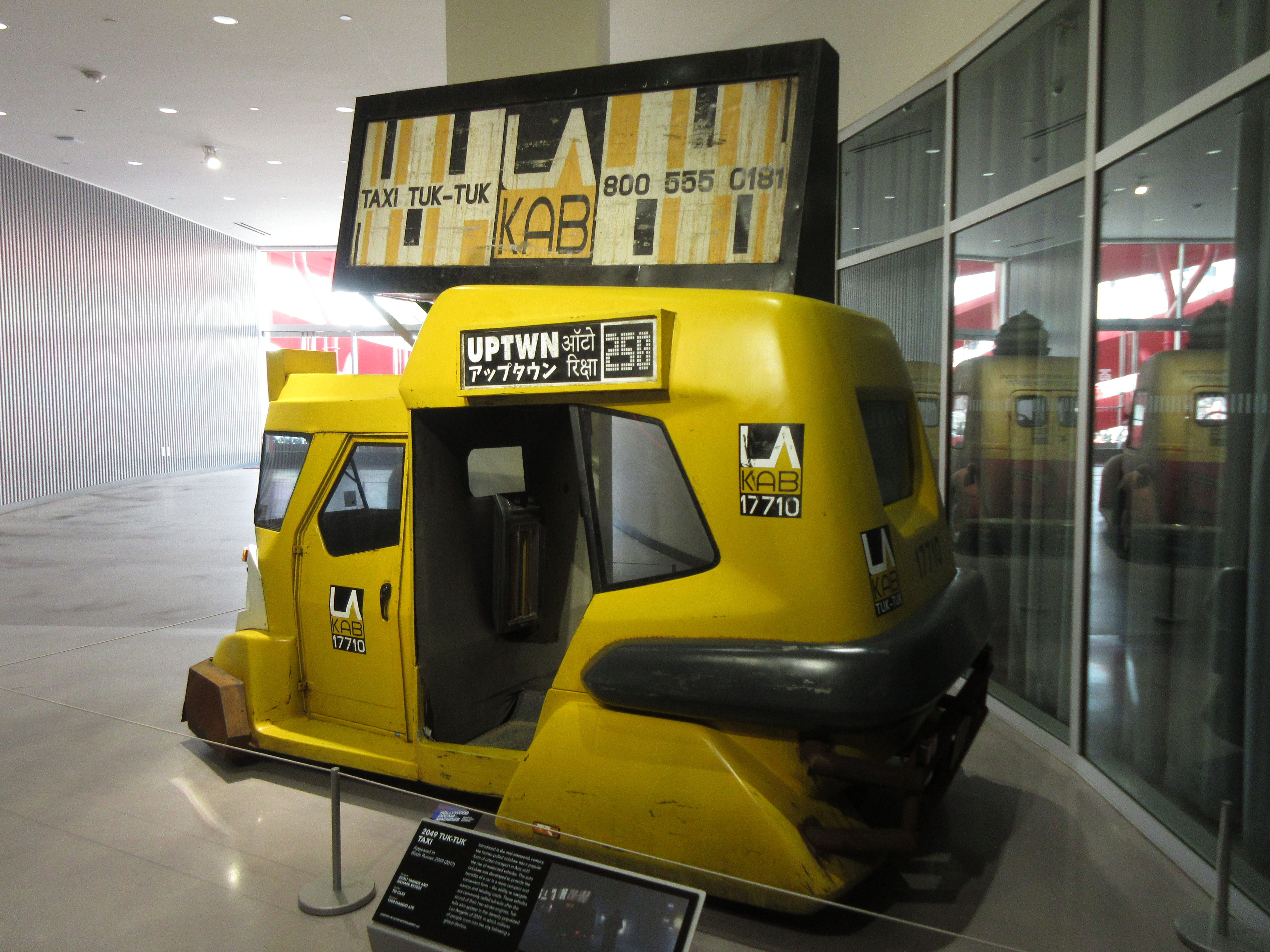 Post-apocalyptic and dystopian movie cars at the Petersen Museum